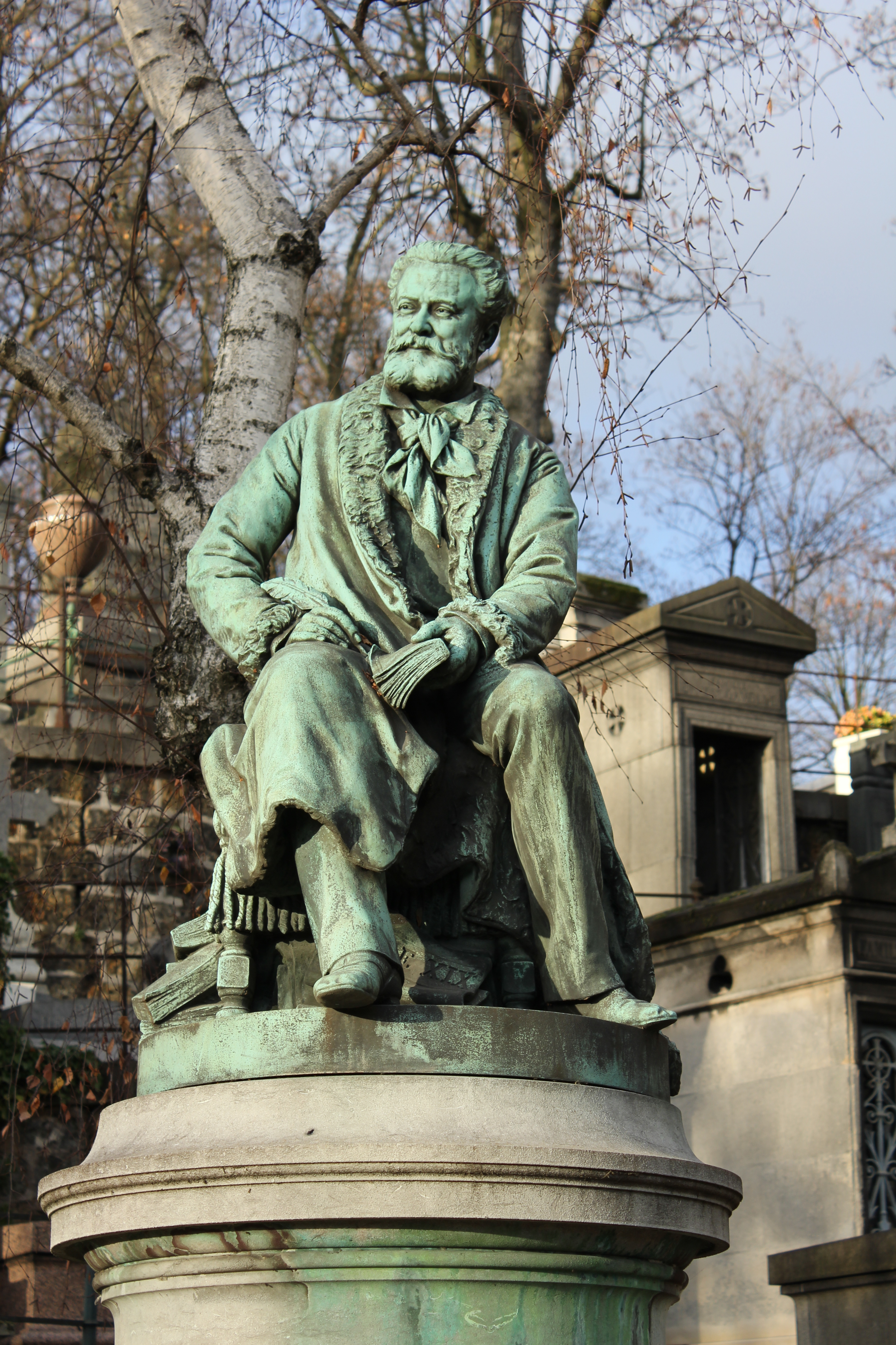 Edmond About's tombstone in Père Lachaise Cemetery, in Paris.